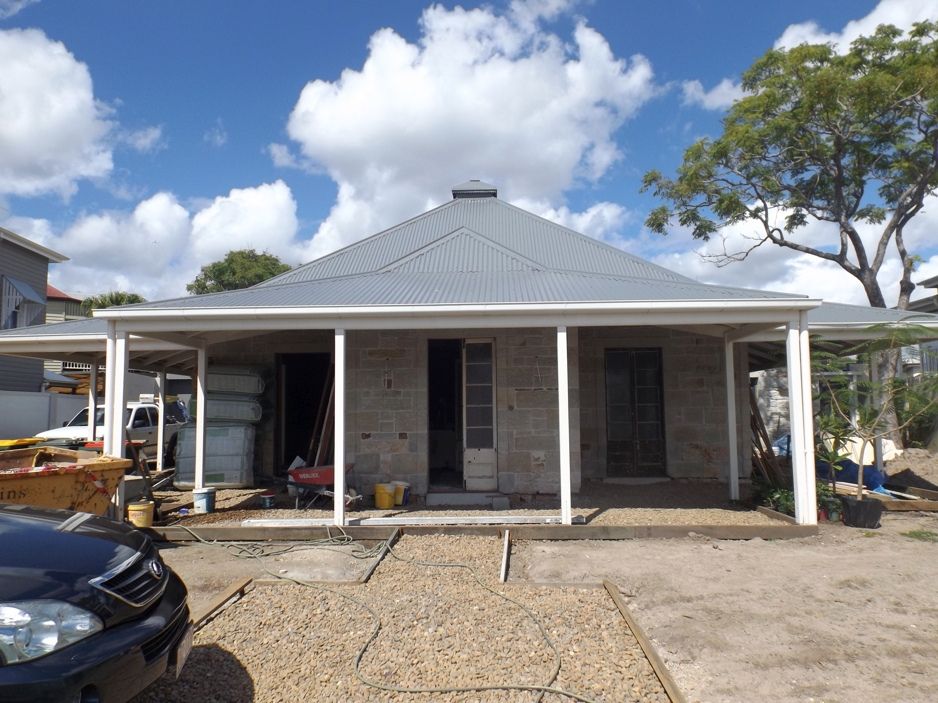 Photo of Eskgrove residence being renovated in Norman Park, Brisbane, Queensland, Australia.